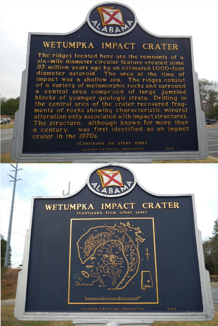 This is a photograph of the historic marker at the Wetumpka Impact Crater